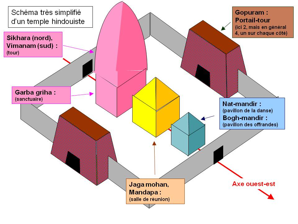 Simplified schema of a Hindu temple (French).